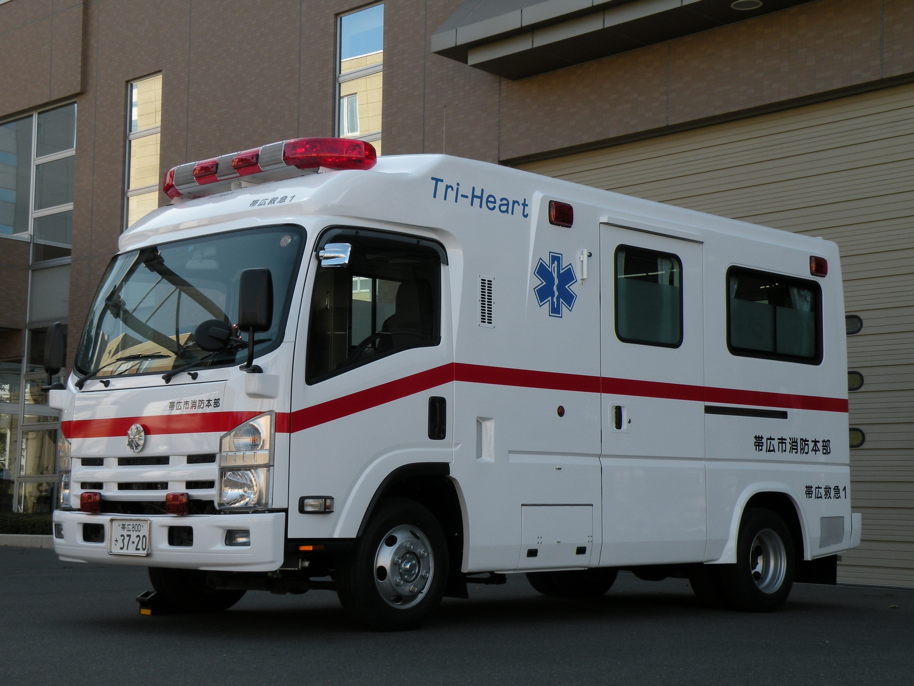 New Tri-heart ambulance of the Obihiro Fire Department.